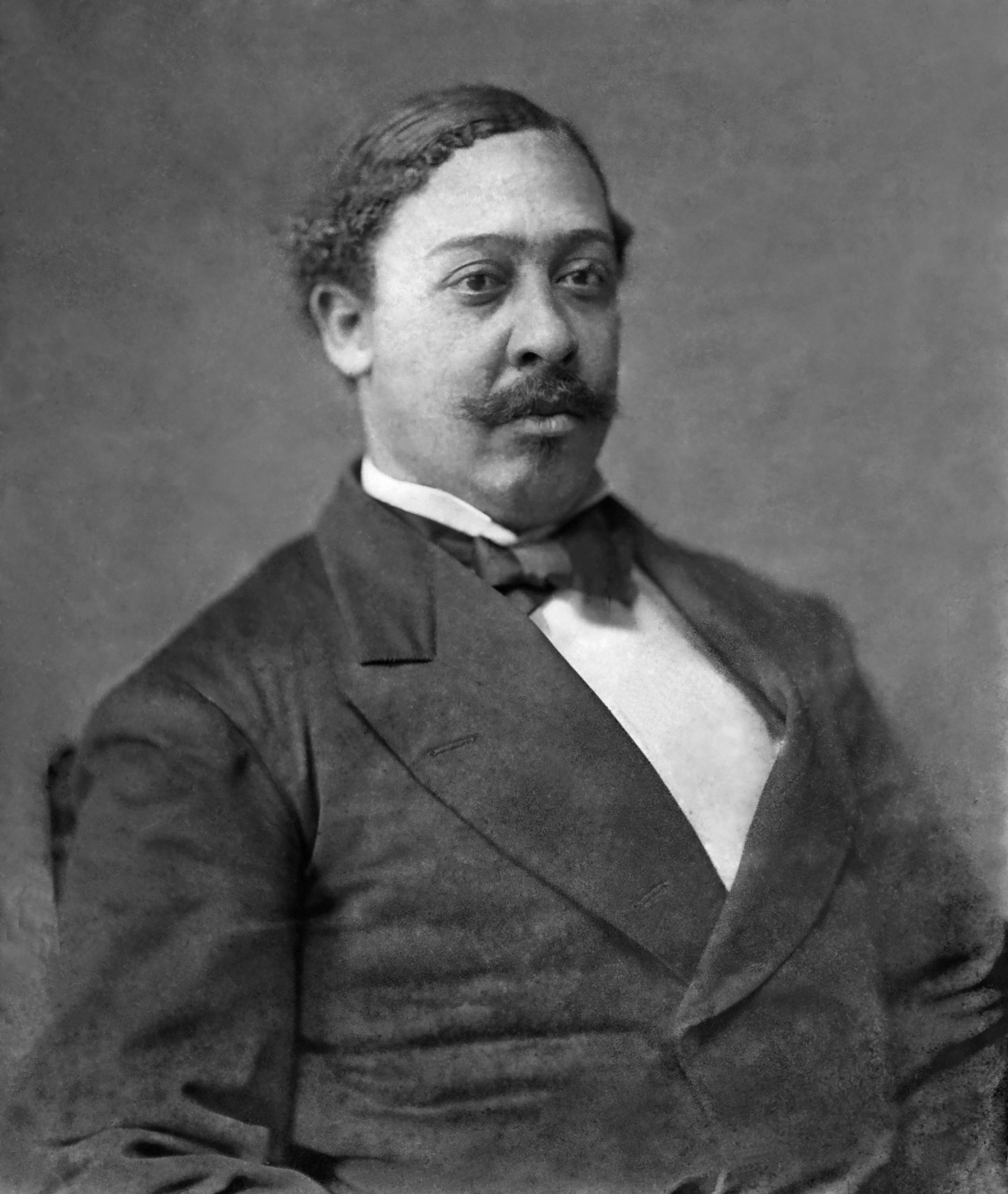 Charles E. Nash. Library of Congress description: "Hon. Charles Edmund Nash of LA. Private in 82nd Reg't U.S. Vol. U.S.A. - lost leg at Fort Blakely"